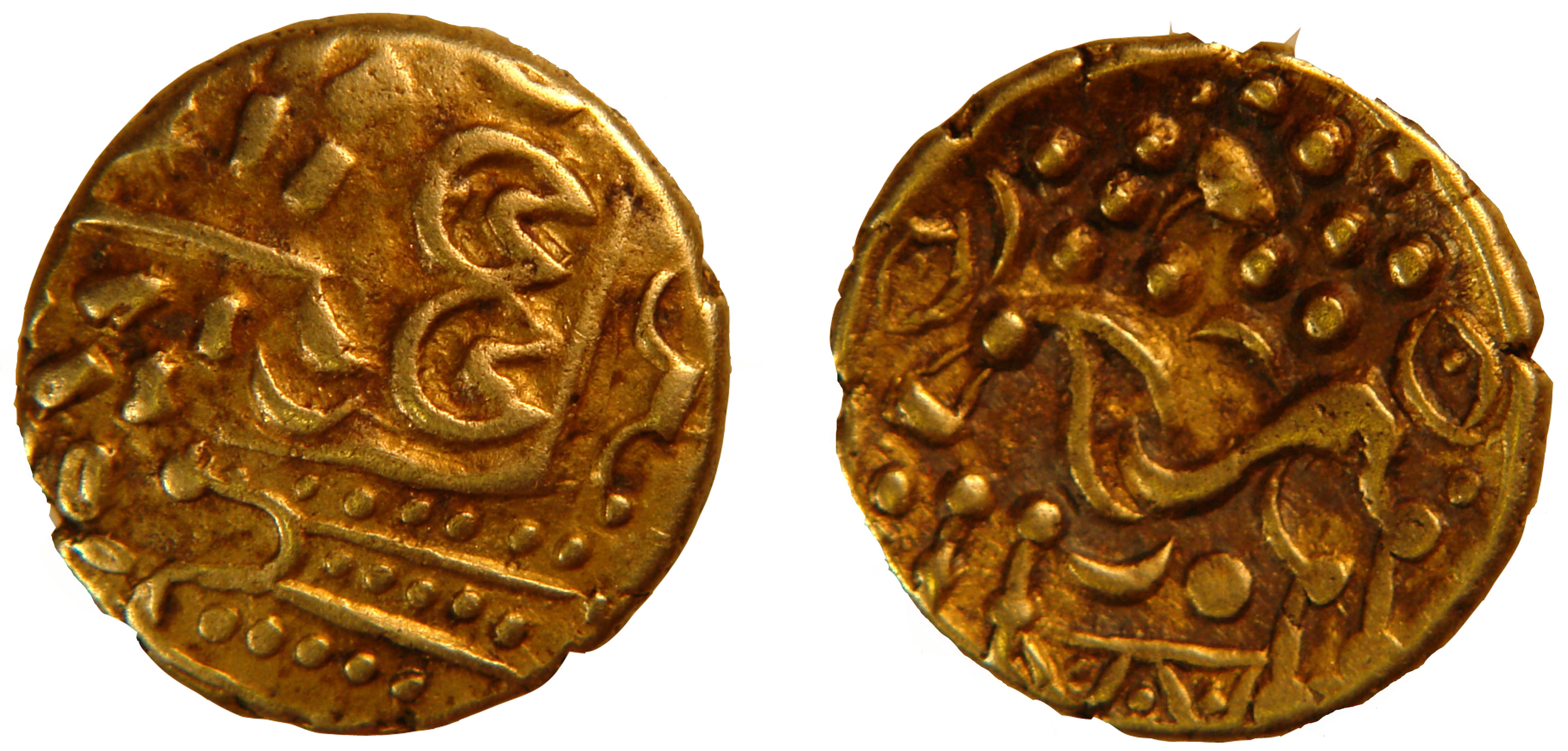 Gold Coin. North East Coast left type Stater of the Corieltauvi, ABC no. 1722, Van Arsdell no. 804 described as Reduced Weight Type, Haselgrove period 2 phase 6, issue of 50-20 BC. Obverse description: Apollo wreath, with cloak of lines and pellets and two crescents at the end of a stick with two peltae adjacent. Reverse description: Celticised horse left, solar pellet above horse, zig-zag with pellets in triangles in exergue, eye or coffee bean shape in front of and behind horse. Diameter: 19.4mm, Thickness: 2.5mm, Weight: 6.05gms, die axis: probably 6